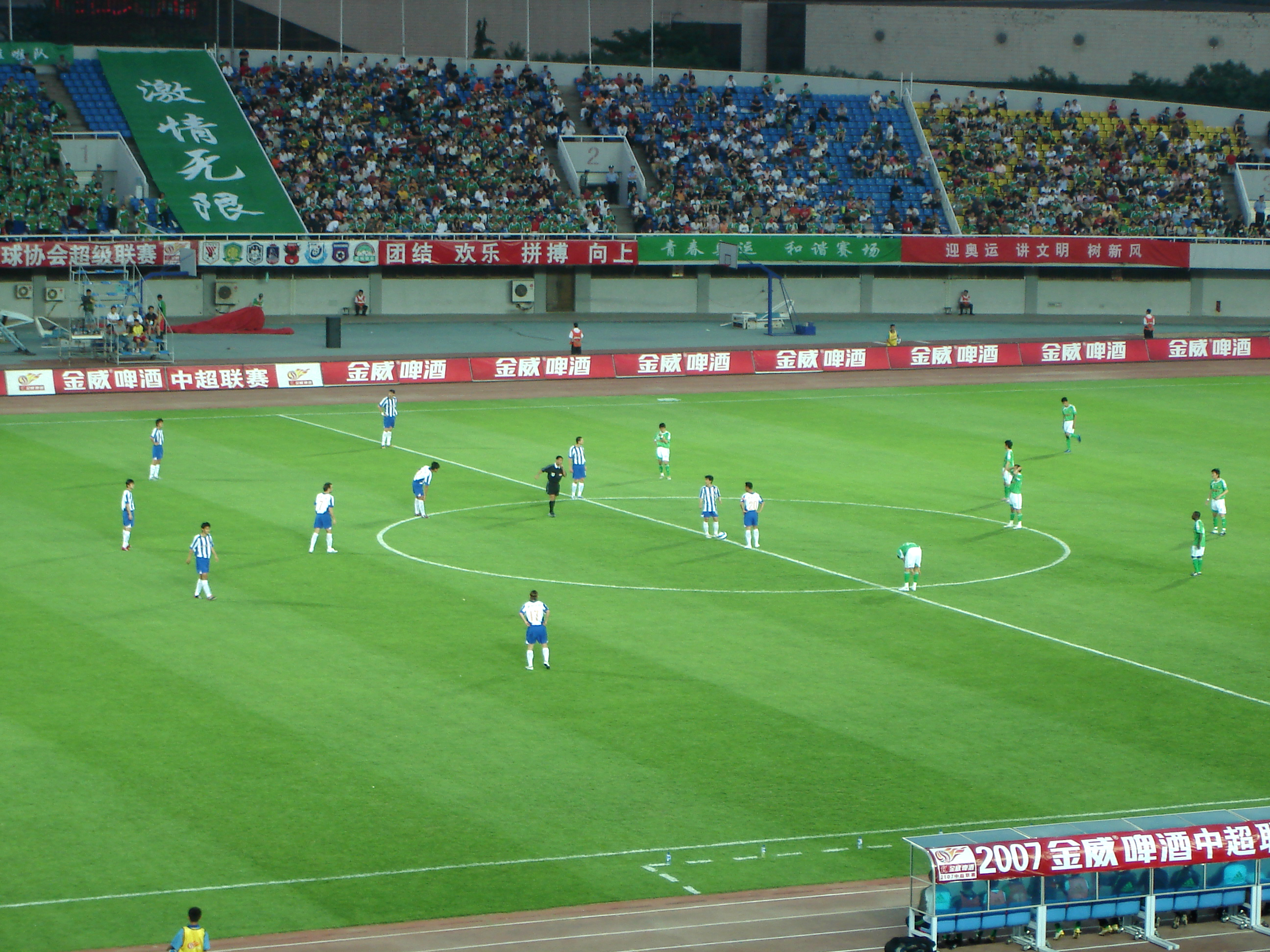 china super league: beijing guoan - shaanxi baorong, at fengtai stadium